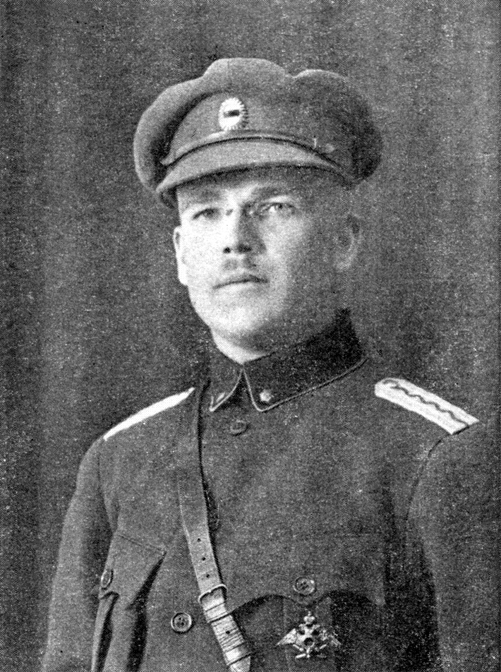 Lieutenant Colonel Hugo Kauler. Commander of 1st Artillery Regiment.